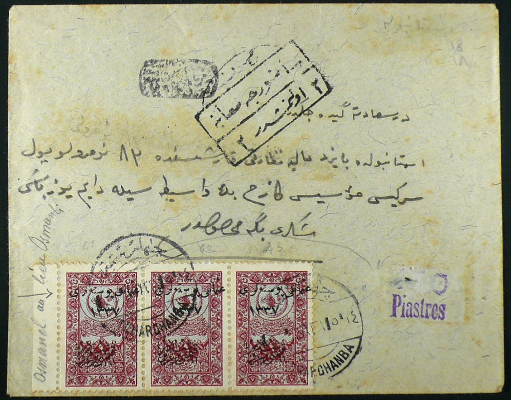 A 1921 cover posted with Hejaz Railway revenues of 1918 issue surcharged as postage stamps (McDonald catalog 19).